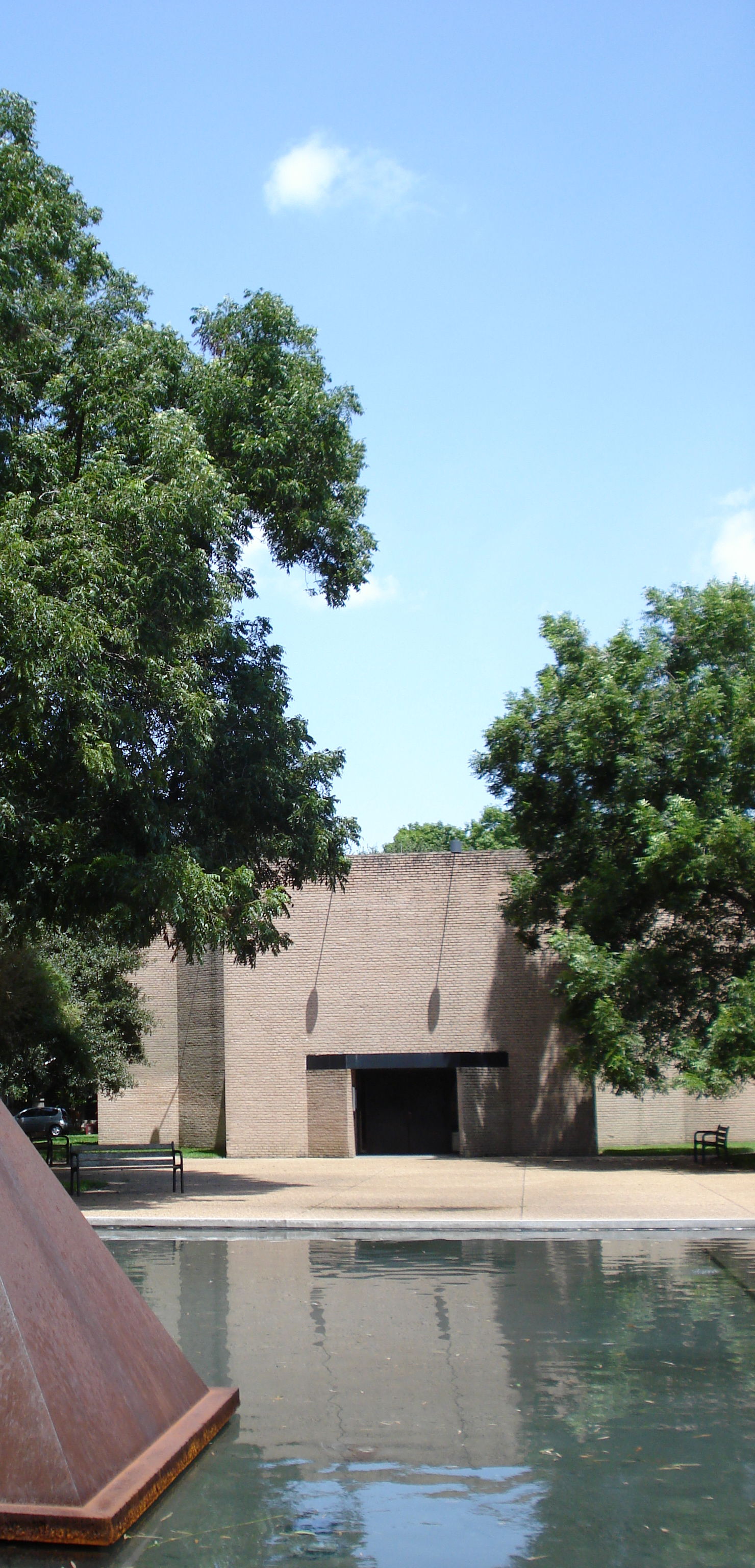 Photo by Argos'Dad